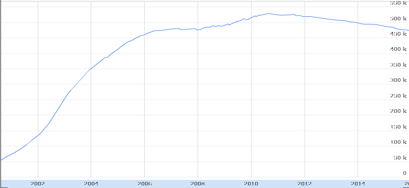 Data collected from various sources, image created for the purpose of using it in wikipedia, not used anywhere else before. Details of data origin see [1]. To get write access to that file contact Windharp via the german wikipedia.